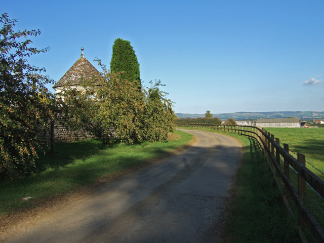 View alongside the Manor House boundary wall Hinton St Mary This side of the manor house boundary wall, and the path that skirts it, are within the grid square ST7815; but the other side, including the dovecote, is in ST7816. The view is looking east towards Home Farm.